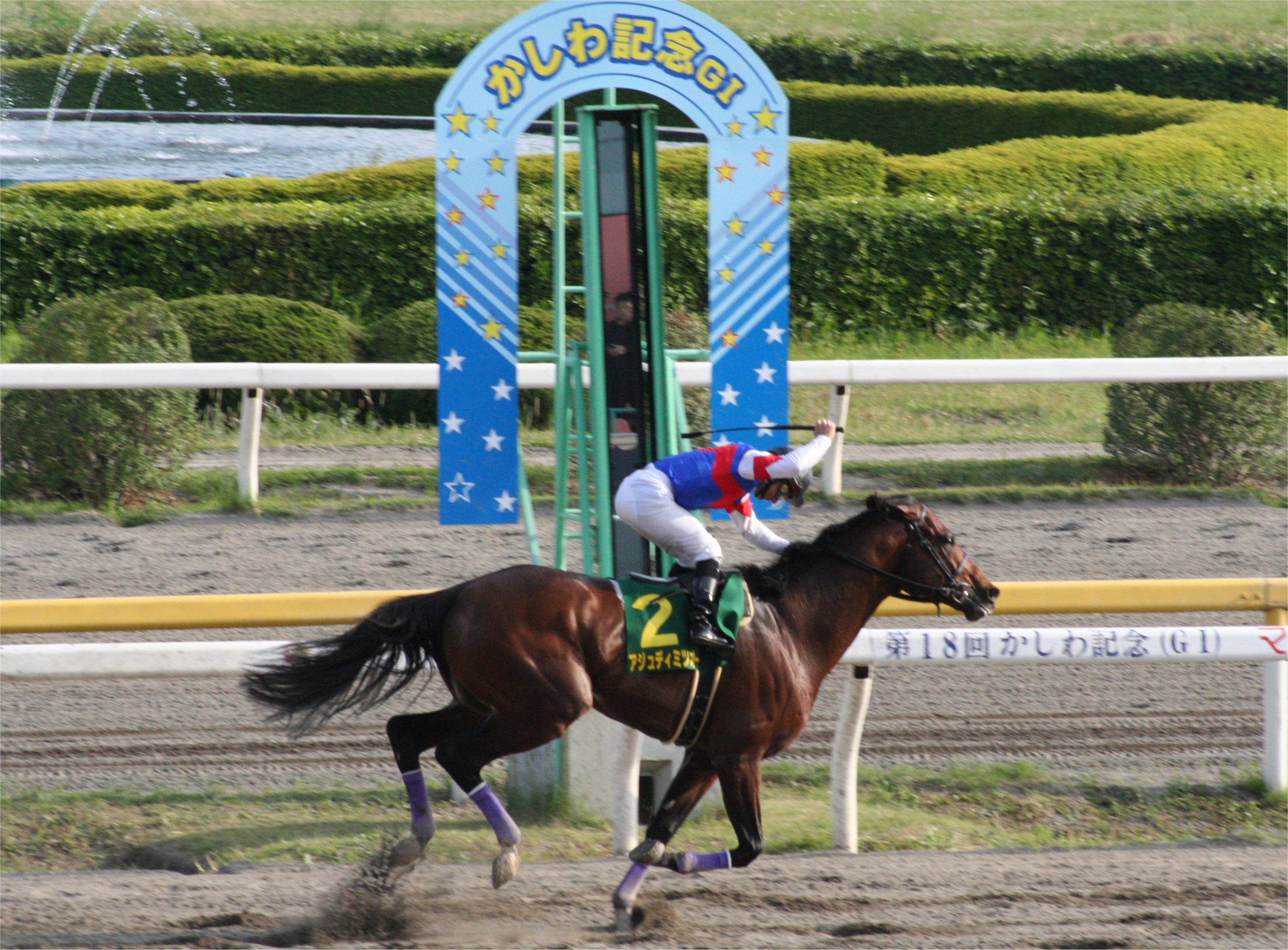 Adjudi Mitsu O